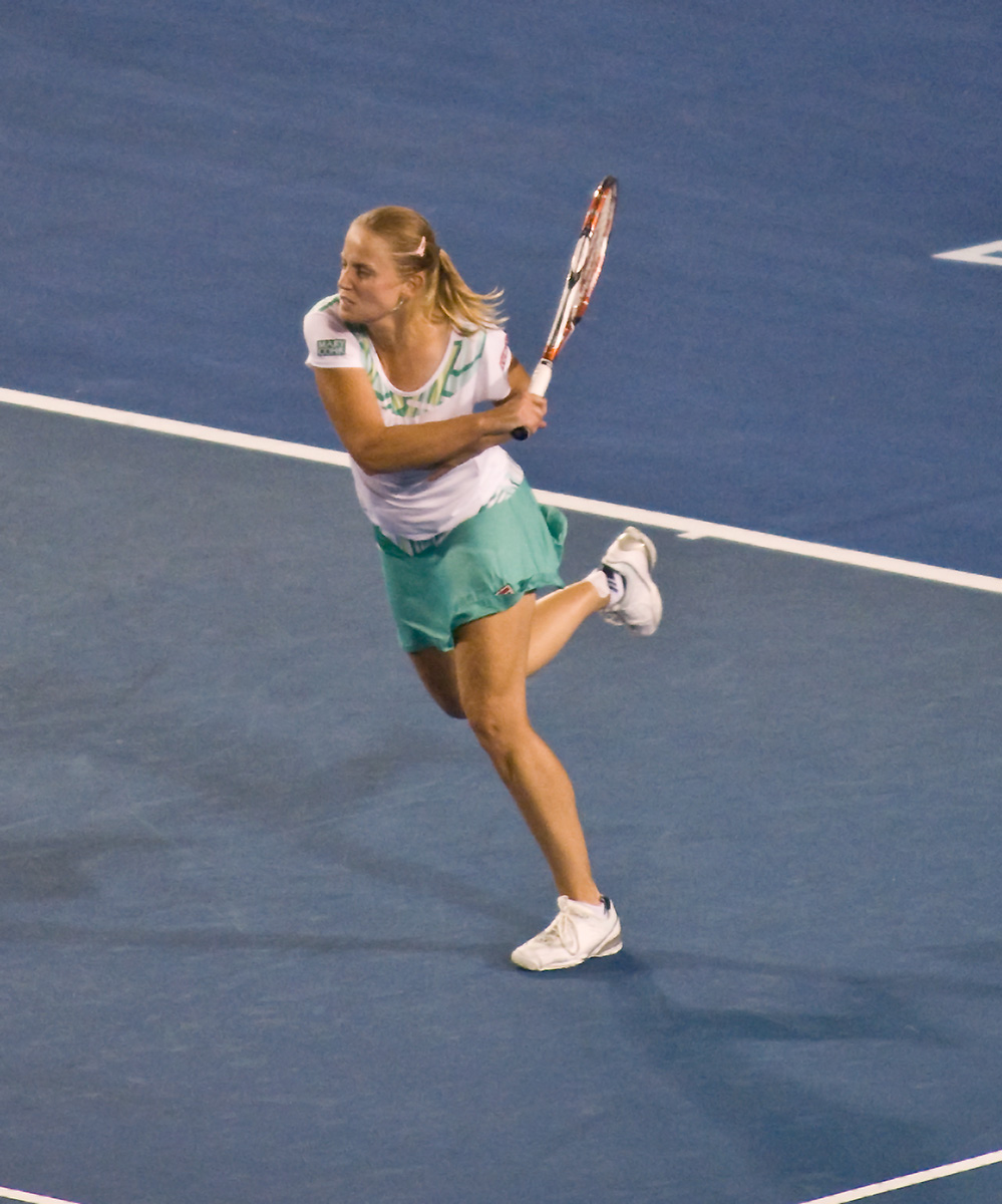 Jelena Dokic - Australian Open 2009